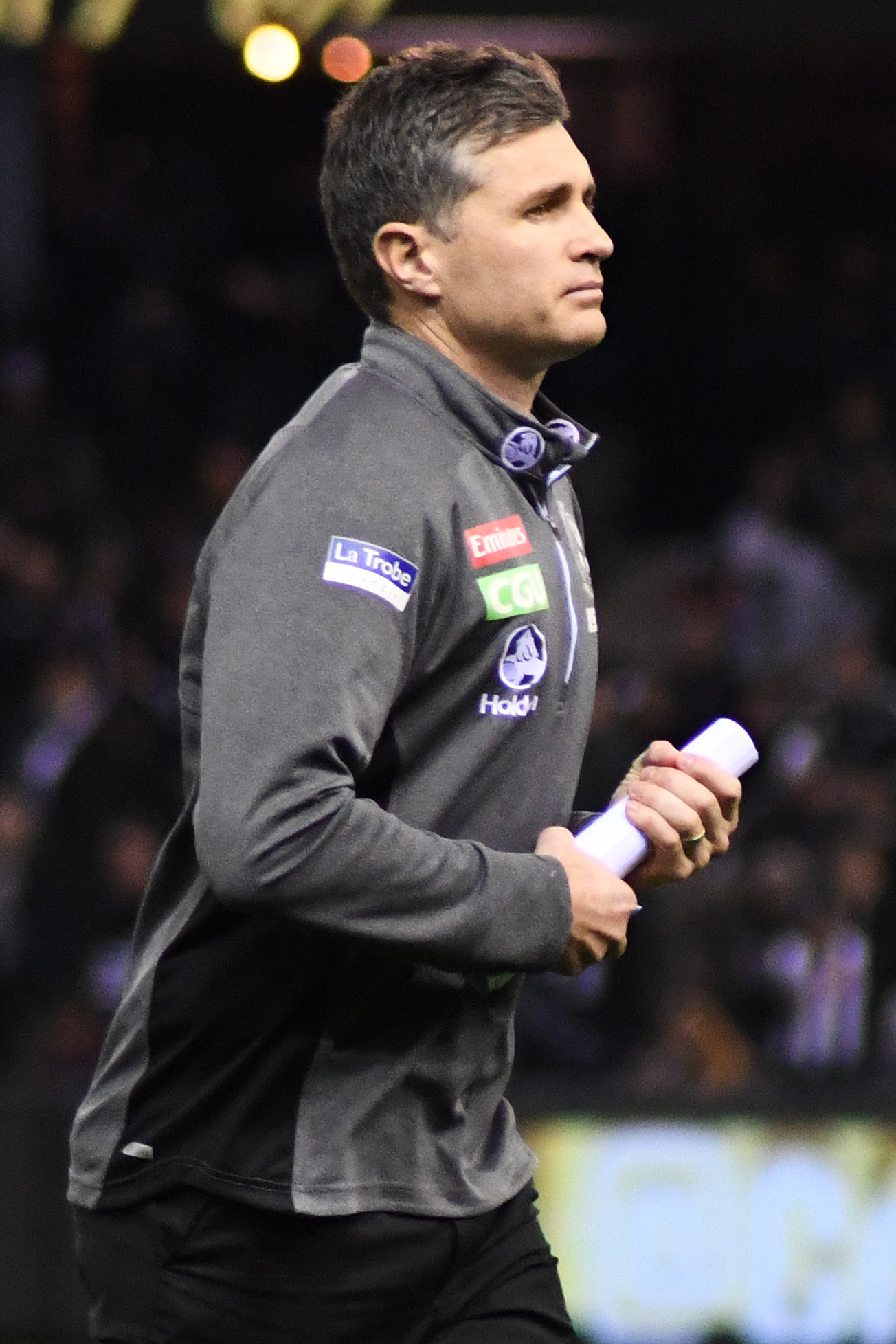 Justin Longmuir of Collingwood during the 2018 AFL round 21 match between Collingwood and Brisbane at Etihad Stadium on Saturday, 11 August 2018 in Melbourne, Victoria.